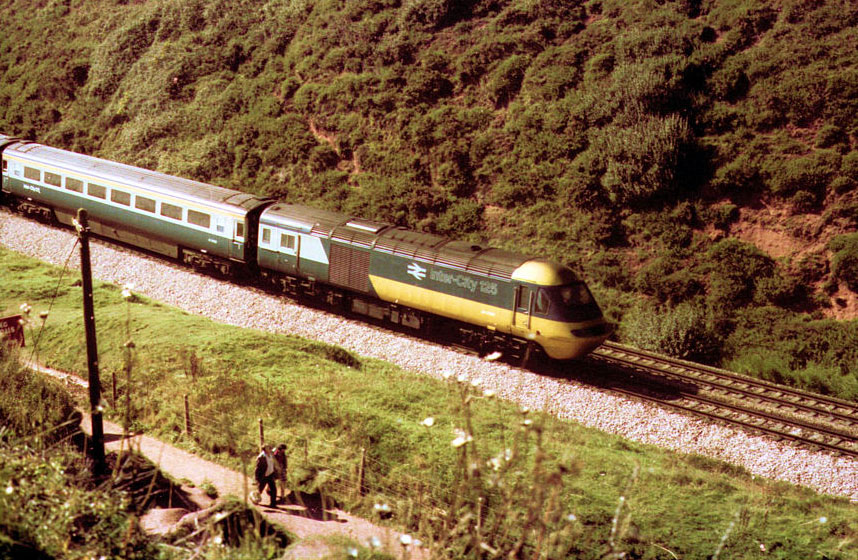 Inter-City 125 High Speed Train on a London to Penzance service seen between Dawlish Warren and Dawlish, Devon, UK in the mid 1970s.